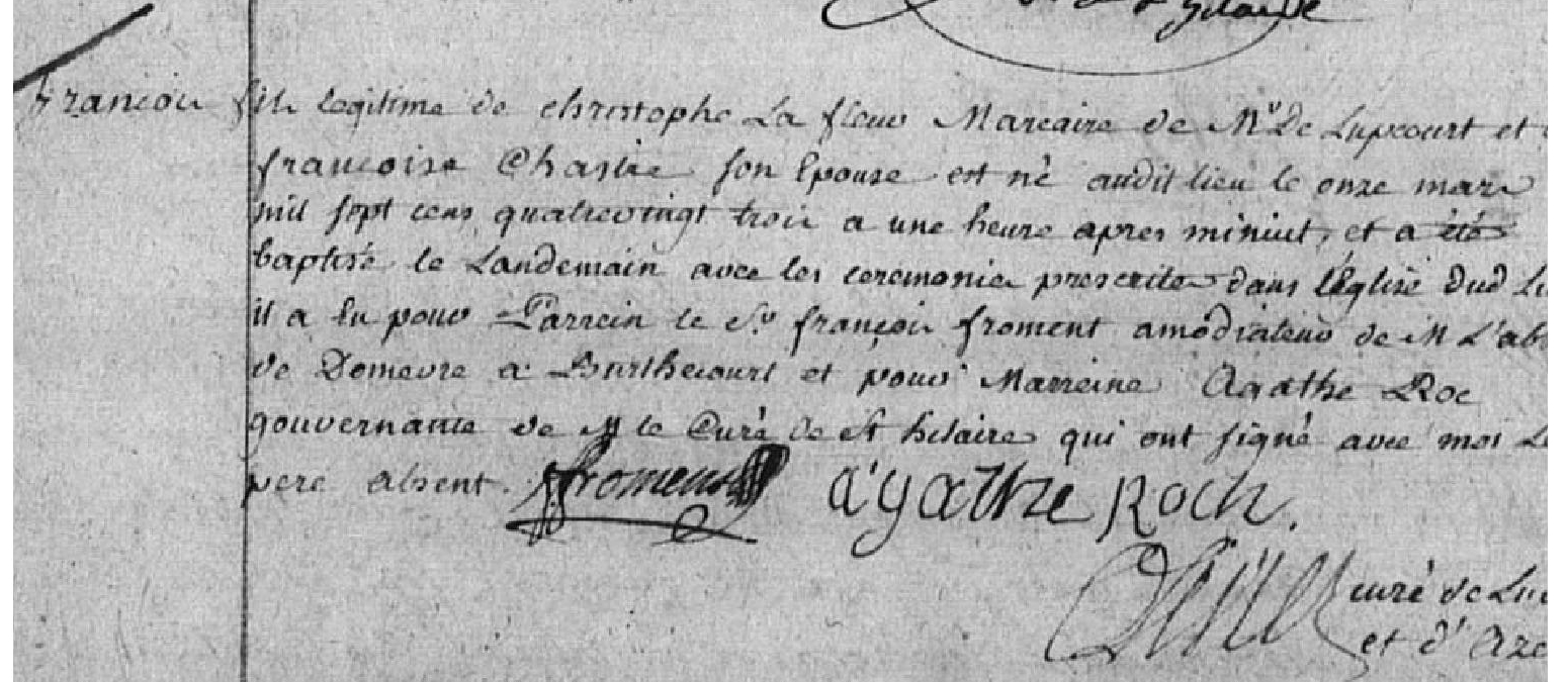 Baptism certificate François Lafleur March